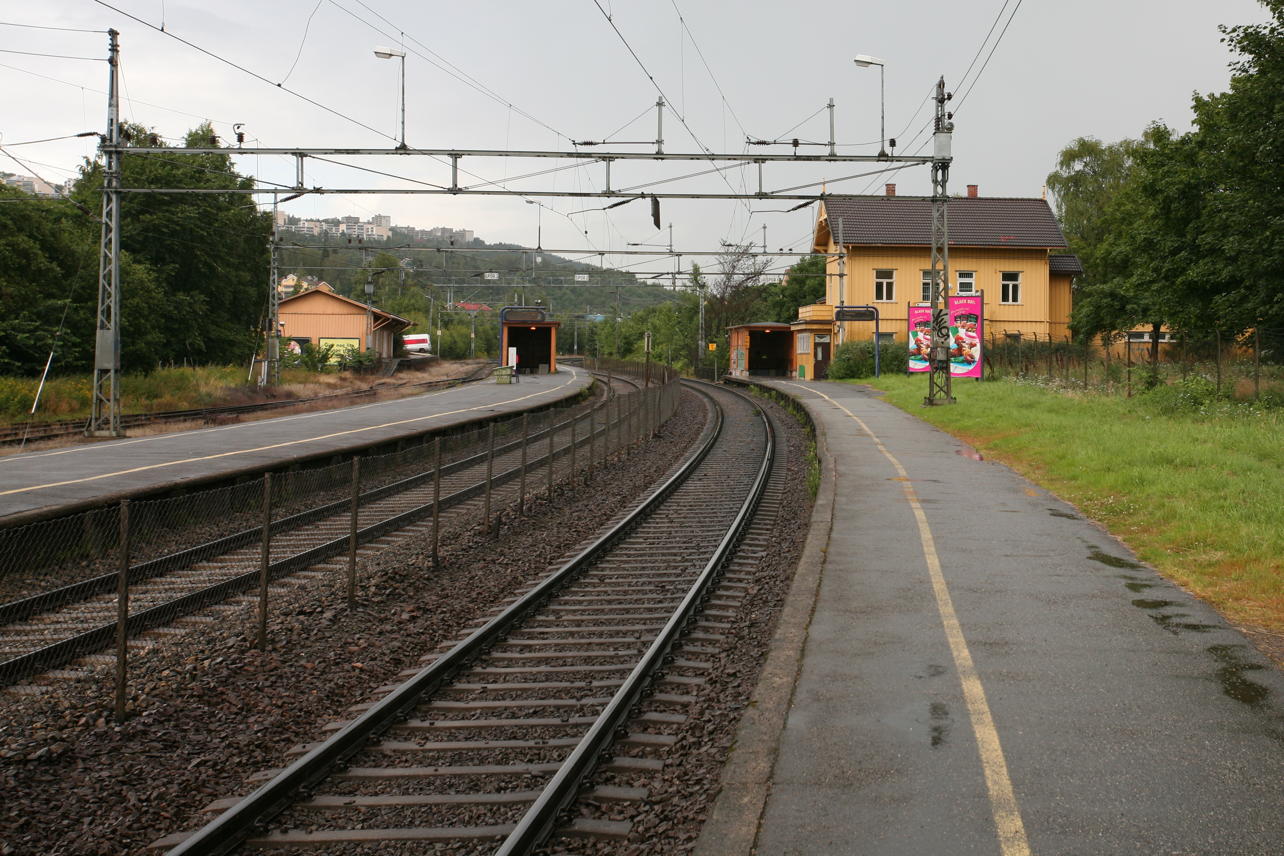 Picture of Grorud Railway Station (Norway)